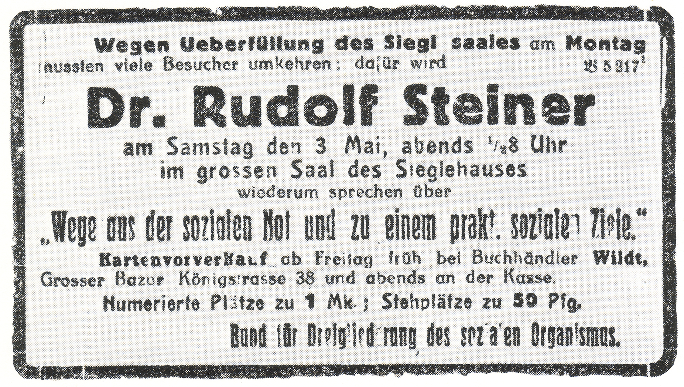 announciation of a speech by Rudolf Steiner, Stuttgart 1919